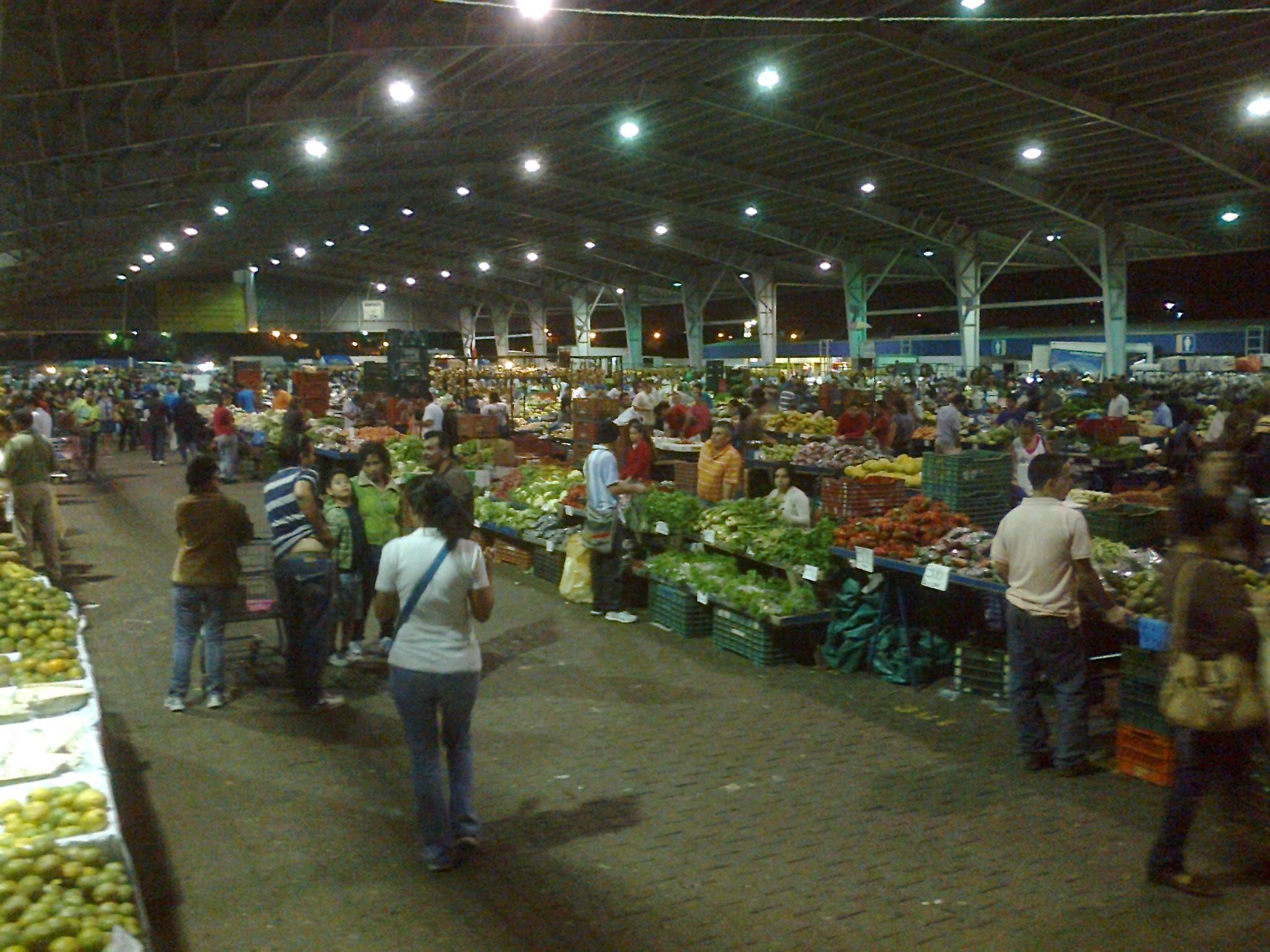 Plaza Ferias Alajuela